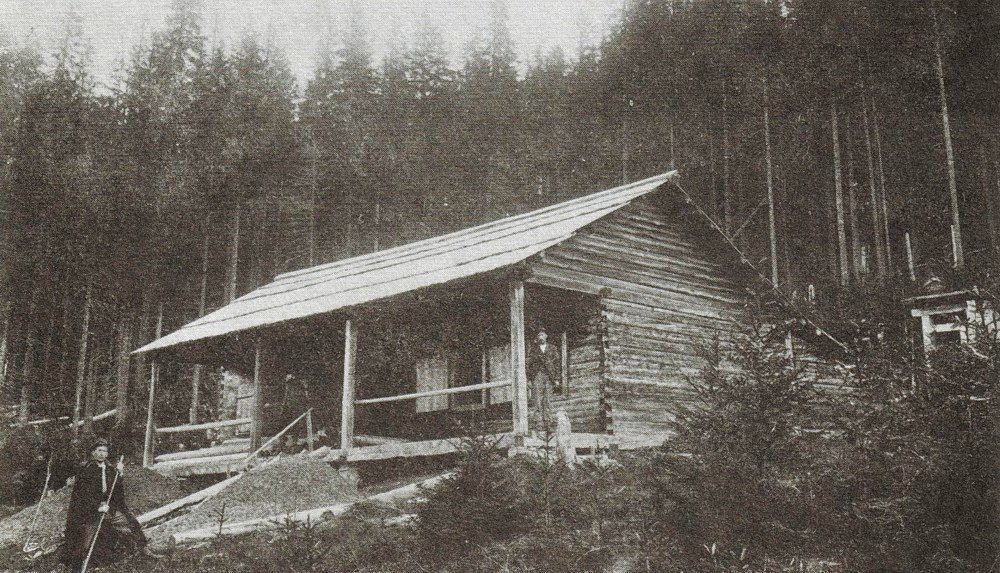 First mountain hut on Zaroślak in Chornohora range, now Ukraine. Built in 1881, burnt in 1909.